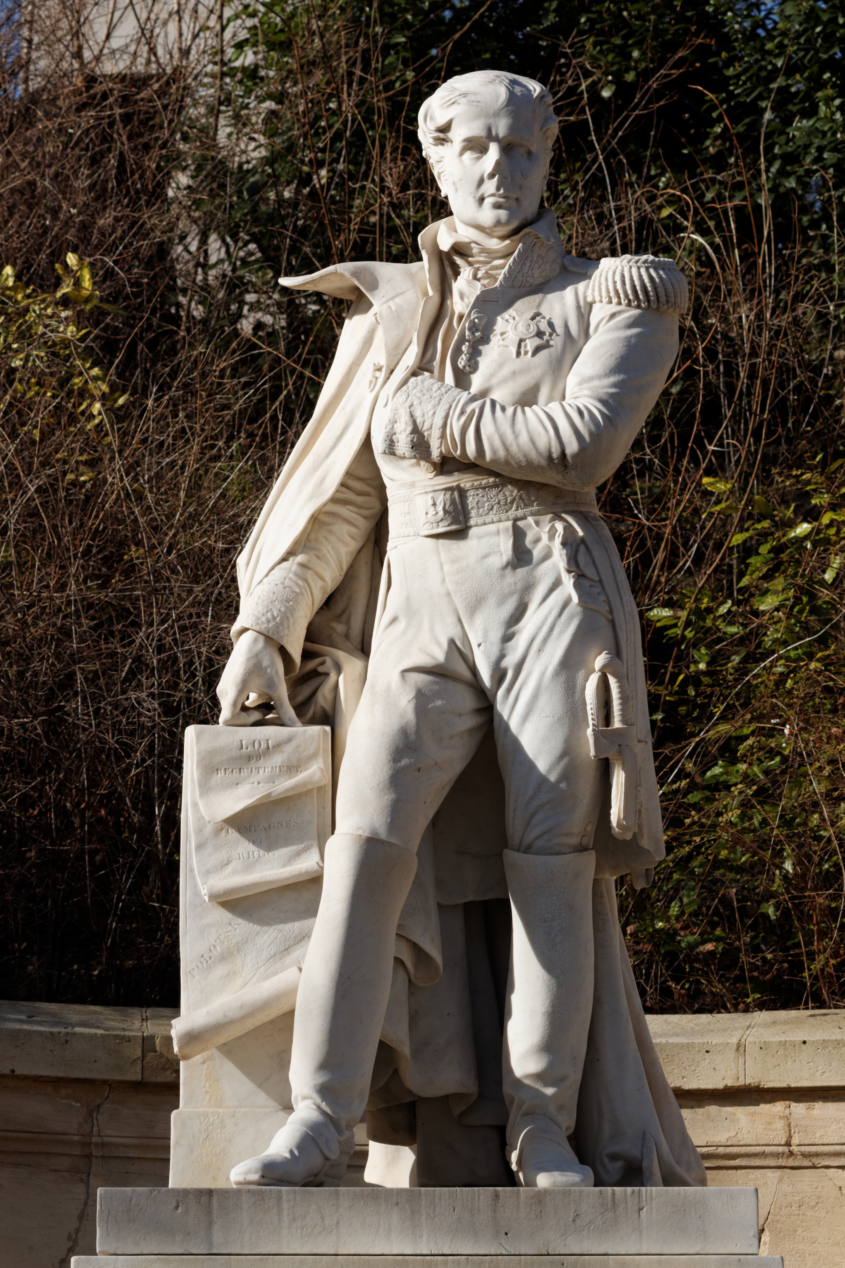 statue